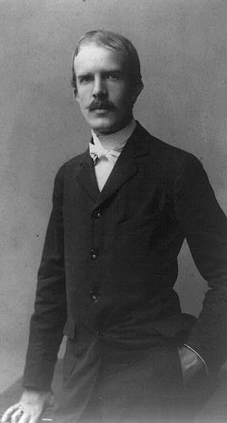 American painter and decorative artist Edward Penfield (1866-1925)